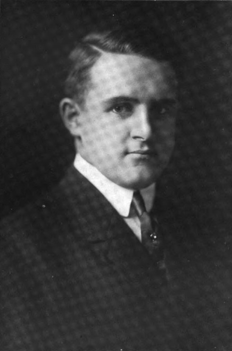 Fred J. Murphy, the Northwestern Purple head football coach from 1914 to 1918.